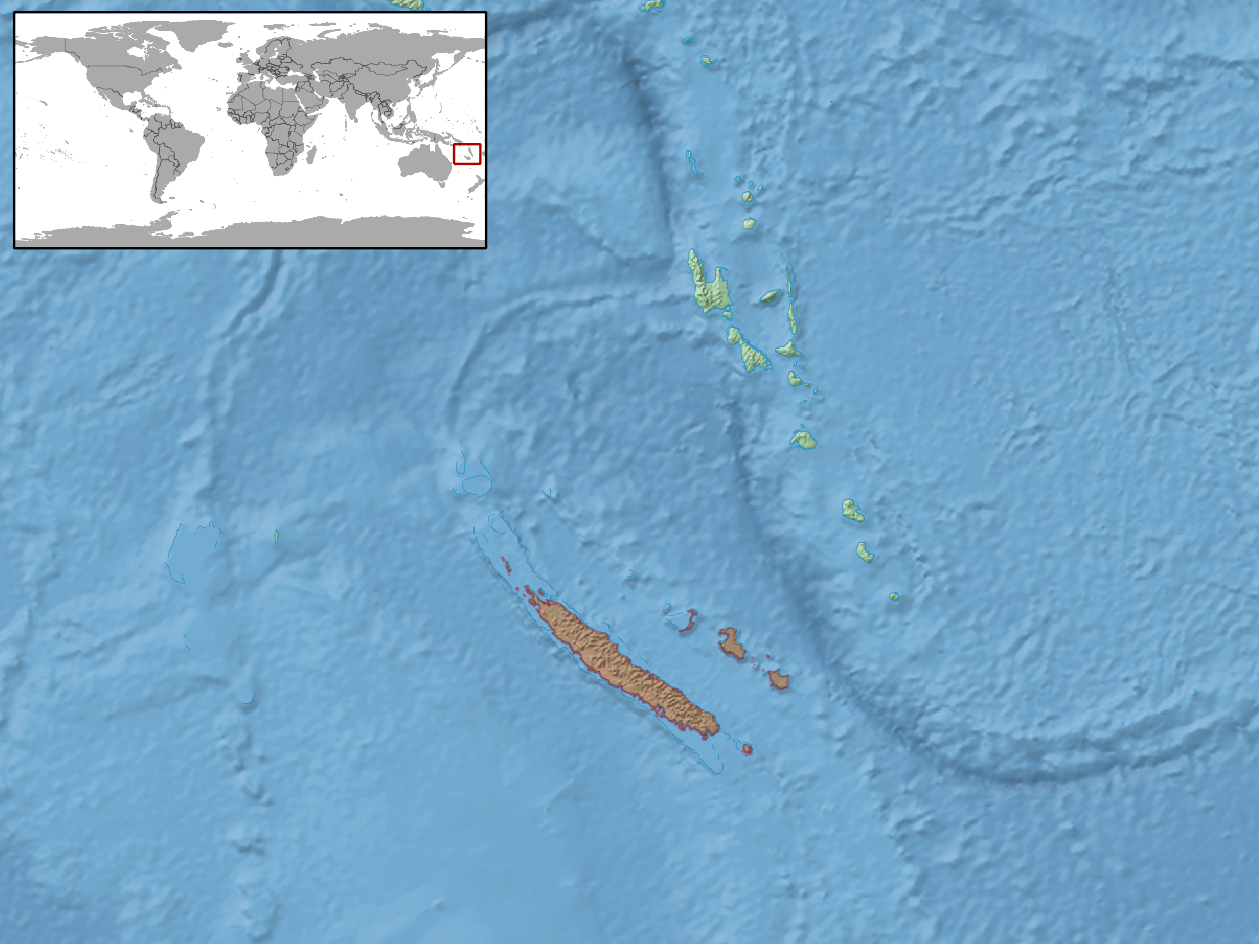 geographic distribution of Caledoniscincus atropunctatus